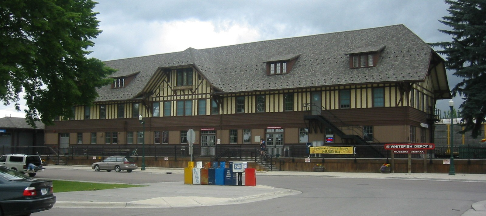 Whitefish (Amtrak station) in Whitefish, Montana, listed on the National Register of Historic Places and home to the Stumptown Historical Society.